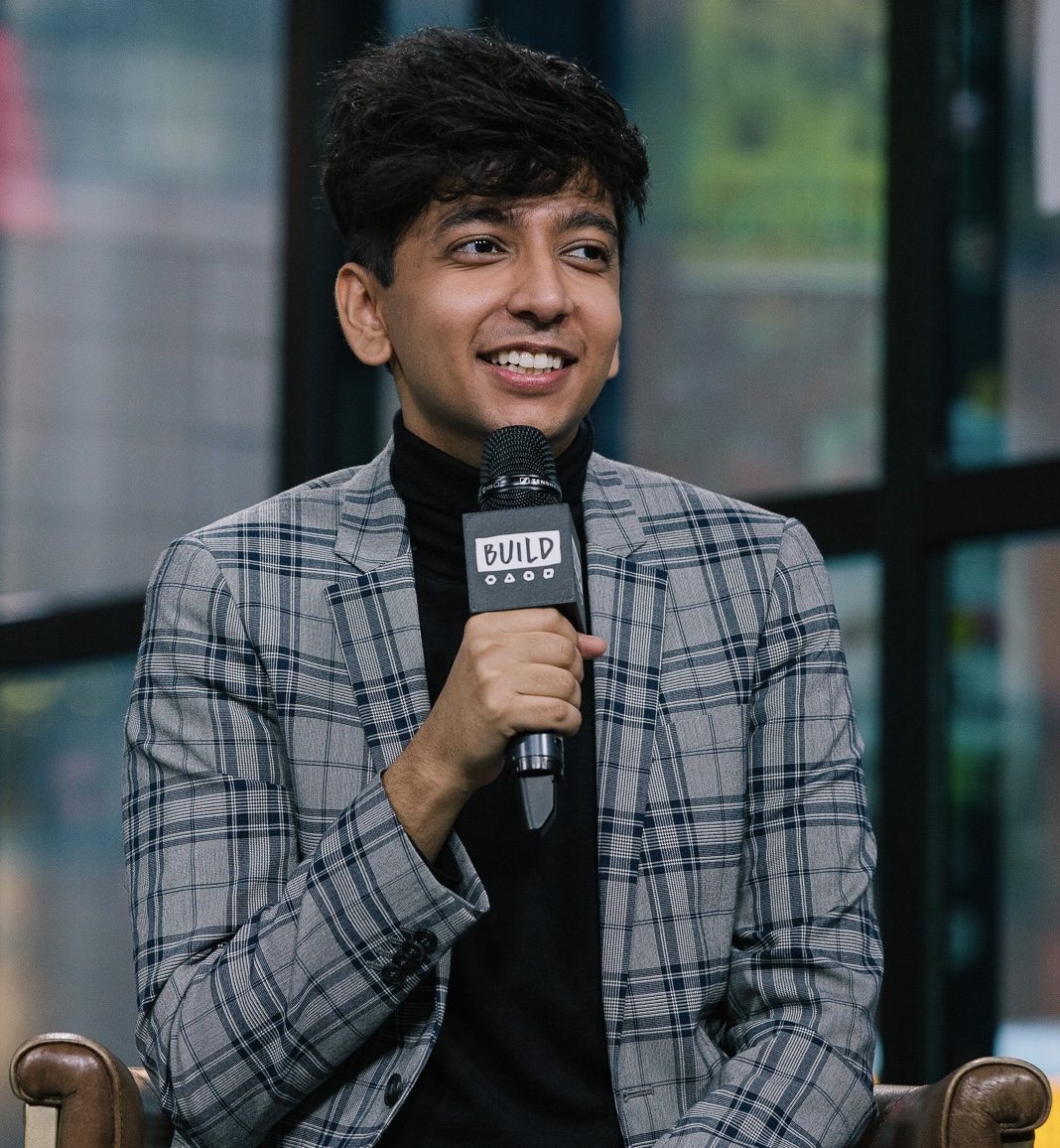 Nik Dodani being interviewed about CBS's Murphy Brown and Netflix's Atypical on AOL Build Series NYC on October 28, 2018.